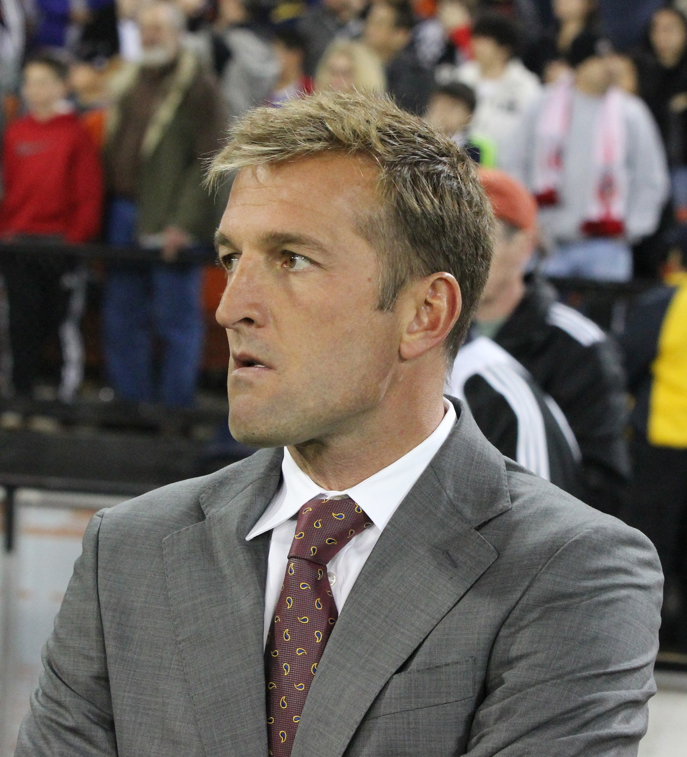 Jason Kreis on the sideline for RSL match